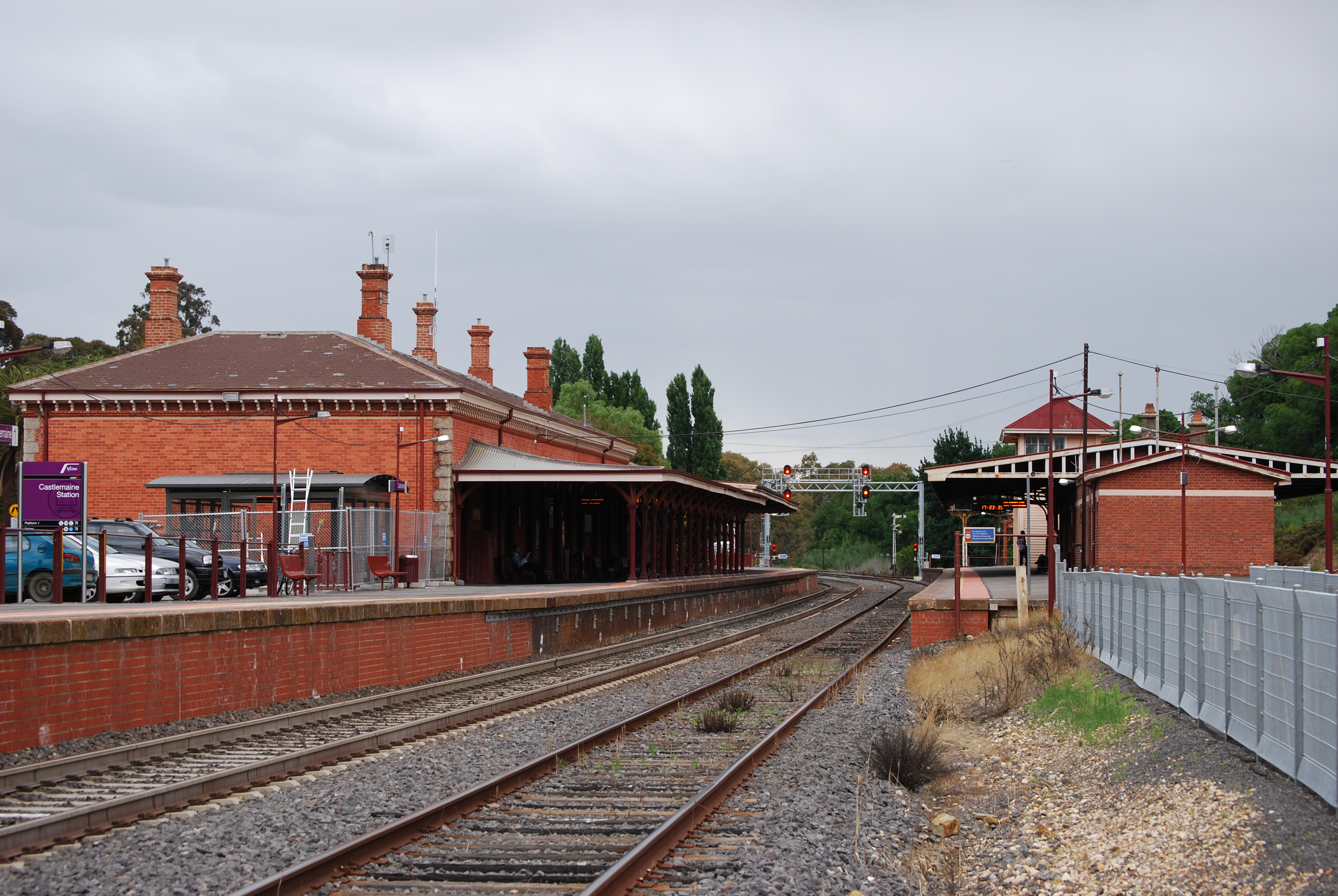 Castlemaine station